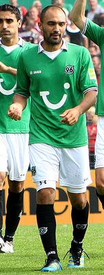 Sofian Chahed in 2011 after playing for Hannover 96 vs Anker Wismar